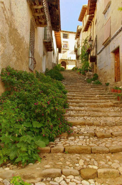 Stairway in Valderrobres, Teruel, Spain. HDR image.